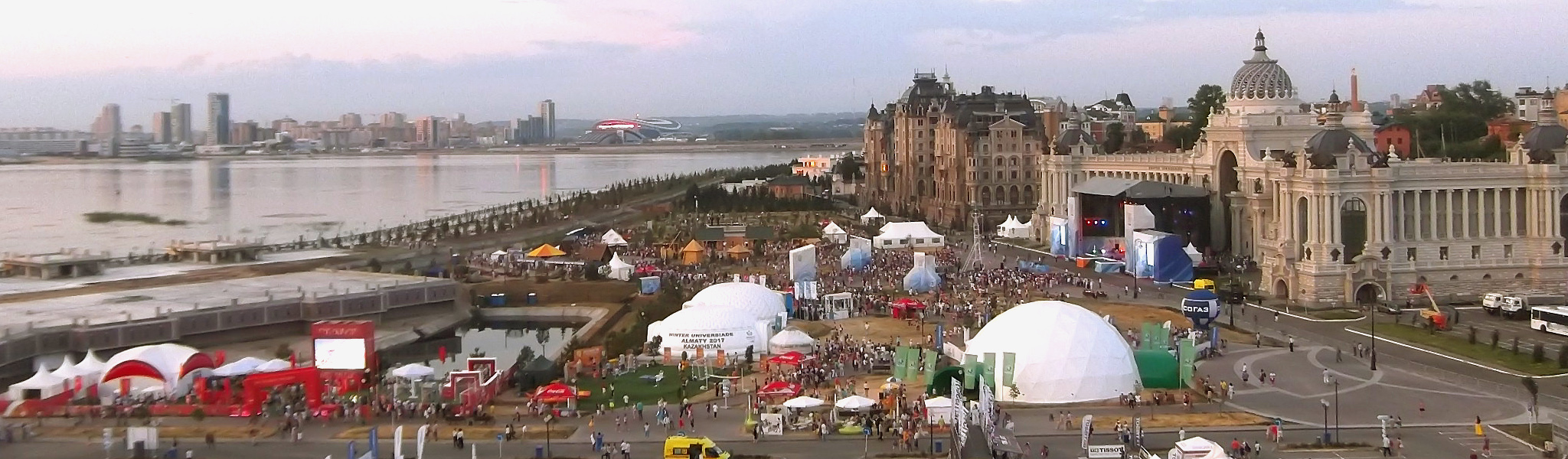 Palace square in Kazan during 2013 Summer Universiade, Cultural Park of Universiade